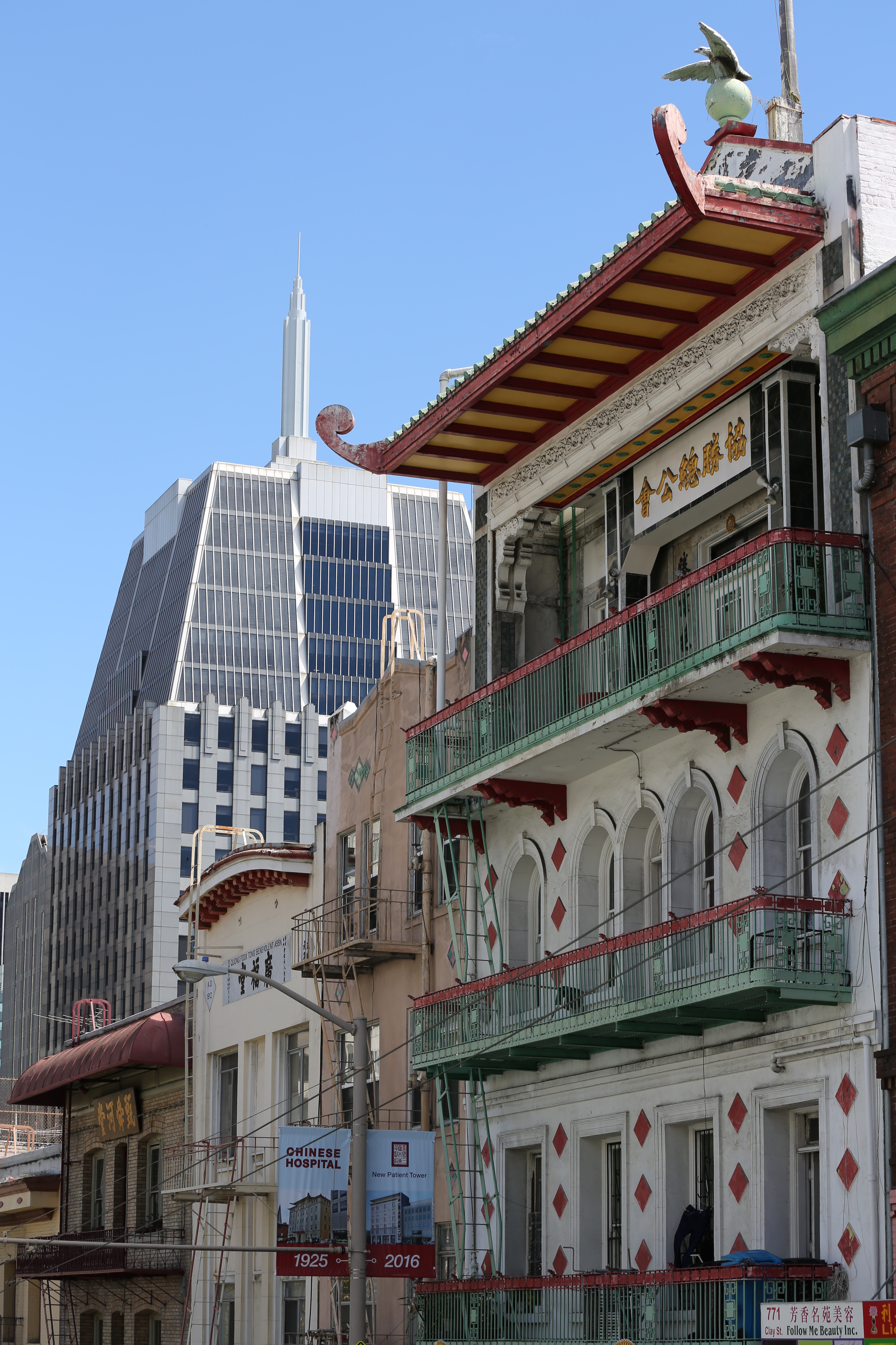 Old building in Chinatown in front of a modern skyscraper in San Francisco